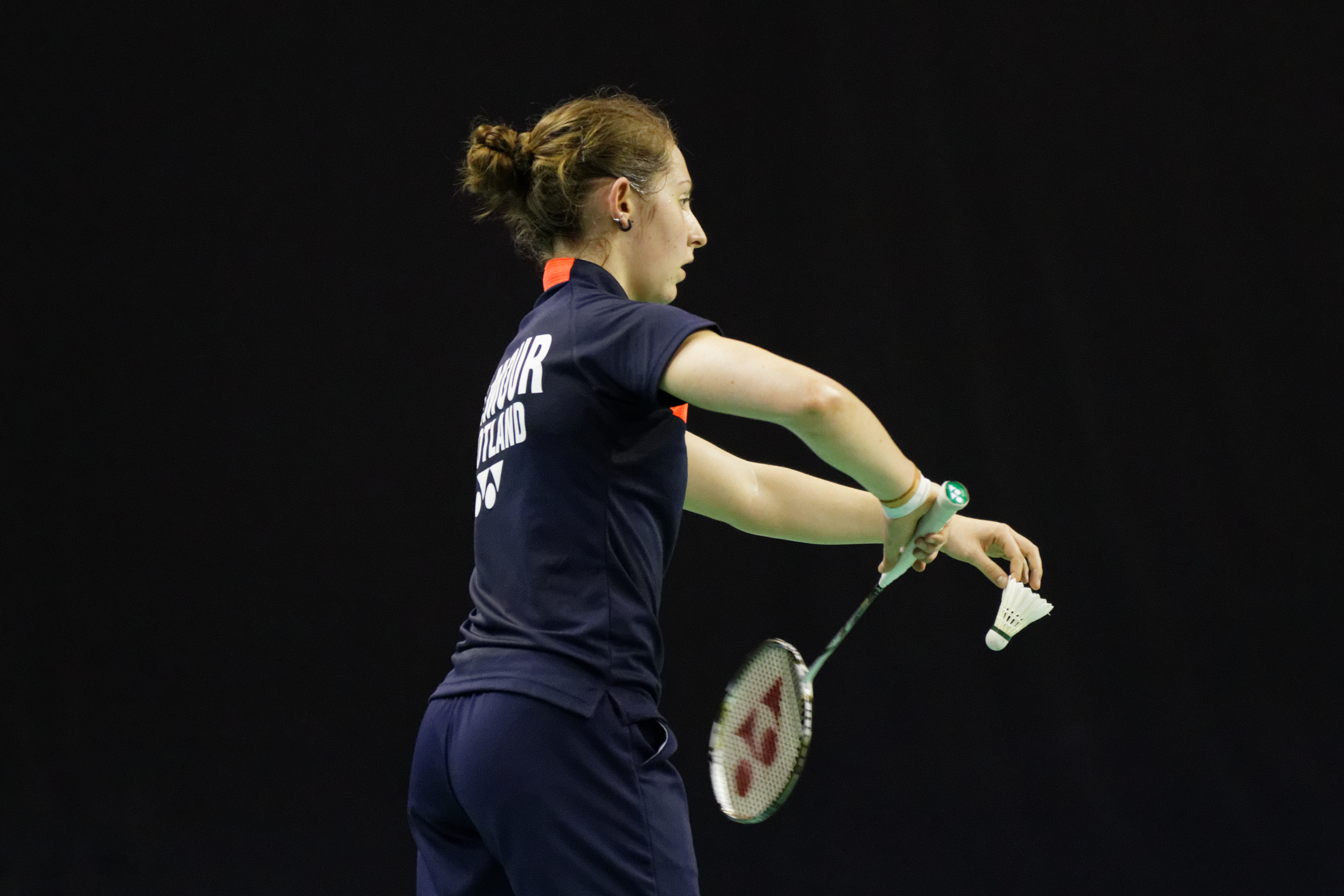 2013 French open. Women's singles quarterfinal. Kirsty Gilmour vs Tai Tzu-ying.